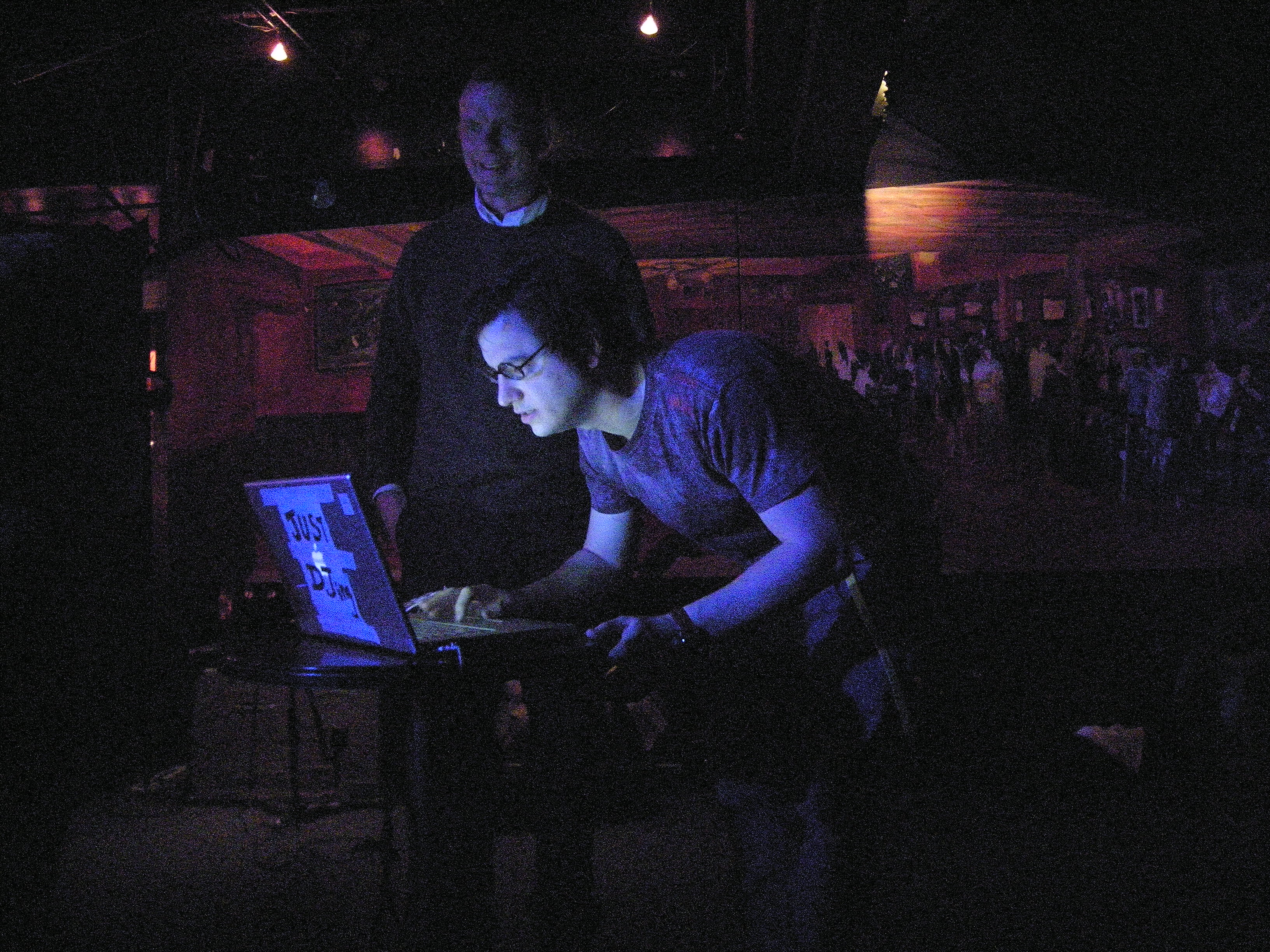 Matmos (M. C. [Martin] Schmidt and Drew Daniel) performing as part of EMP Pop Conference Night at the Sunset in Seattle's Ballard neighborhood, part of the 2009 Pop Conference, Experience Music Project, Seattle, Washington.